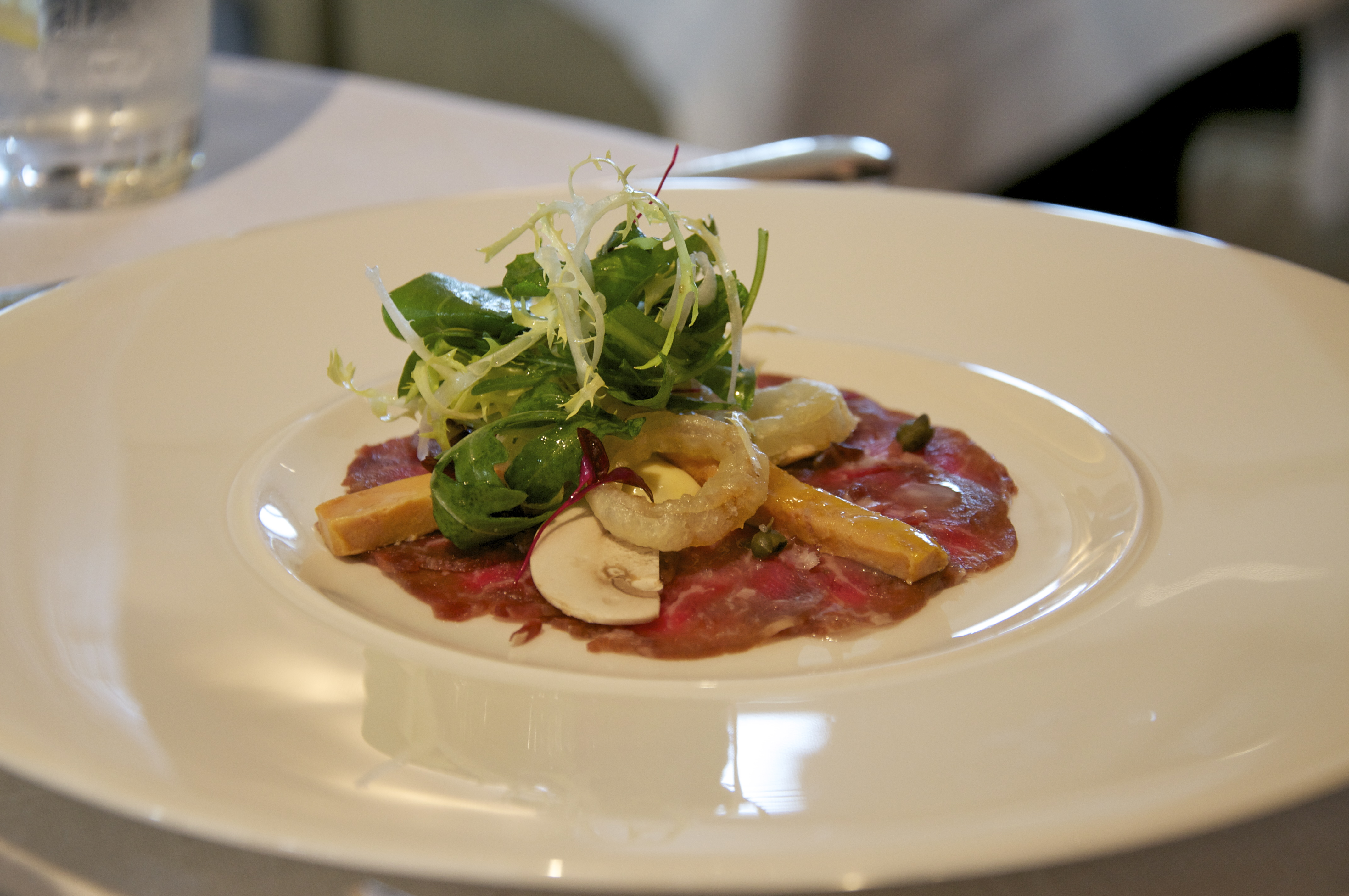 Beef carpaccio, photographed at Gordon Ramsay's Petrus restaurant in London in August 2011.